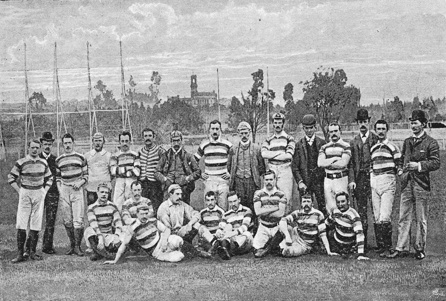 The first British Isles rugby union team to tour the Southern Hemisphere. Robert Seddons team to New Zealand and Australia. (Back row): Anderton, Kent, Bumby, Shrewsbury, Brooks, Lawler, Banks, Saul, Laing, Smith, Thomas, Mathers, Pinketh, Burnet, Seddon. (Front row): Speakman, Williams, Nolan, Stoddart, Haslam, Burnet, Eagles, Stuart, McShane.